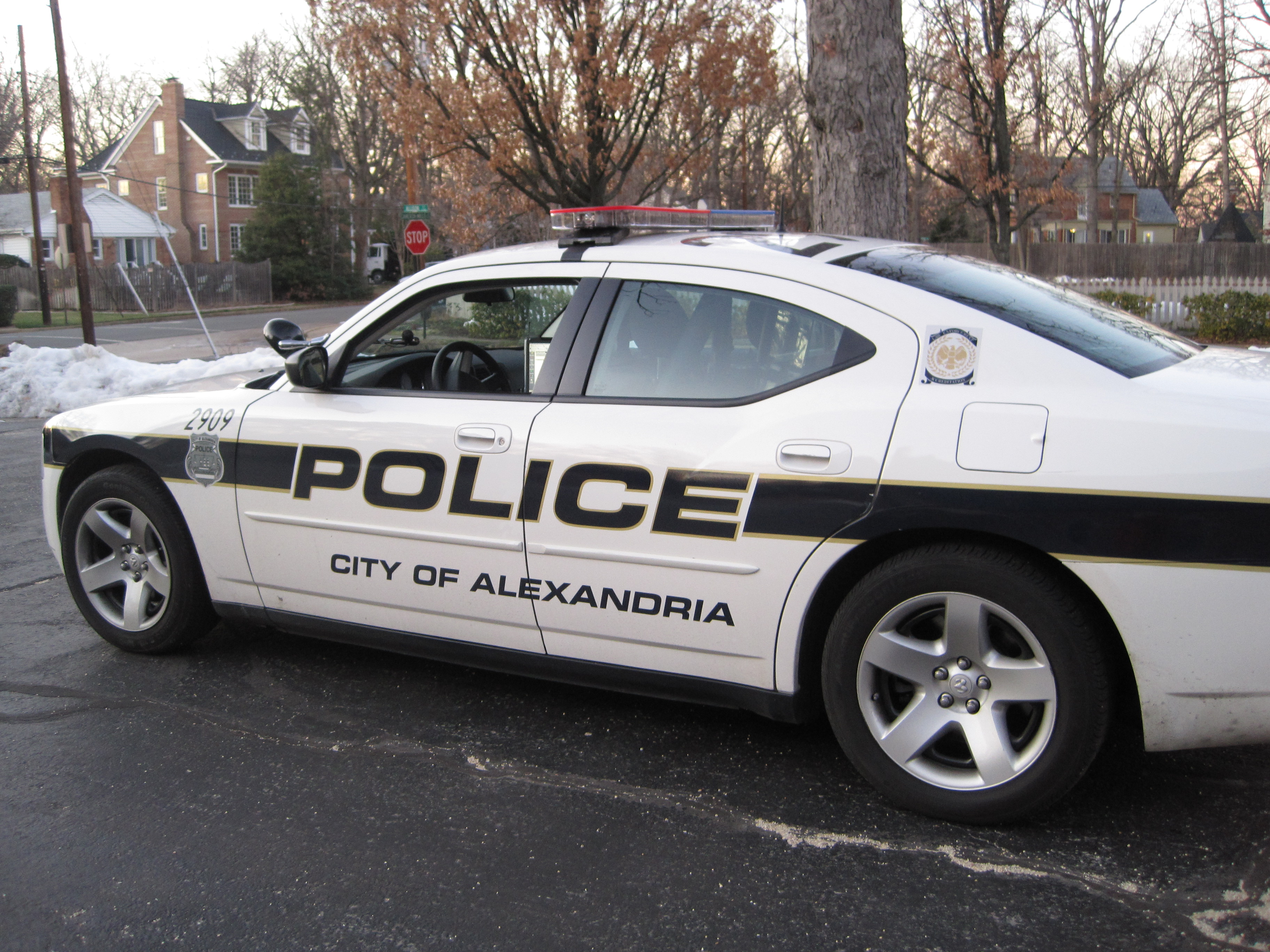 One of the Alexandria Police Department's new Dodge Chargers